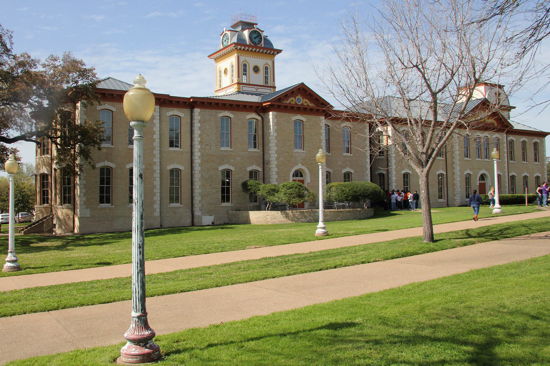 One of the University of Texas, Little Campus buildings, Austin, Texas, United States. It is now known as John W. Hargis Hall and houses the Undergraduate Admissions Center. University of Texas, Little Campus was listed on the National Register of Historic Places on August 13, 1974.